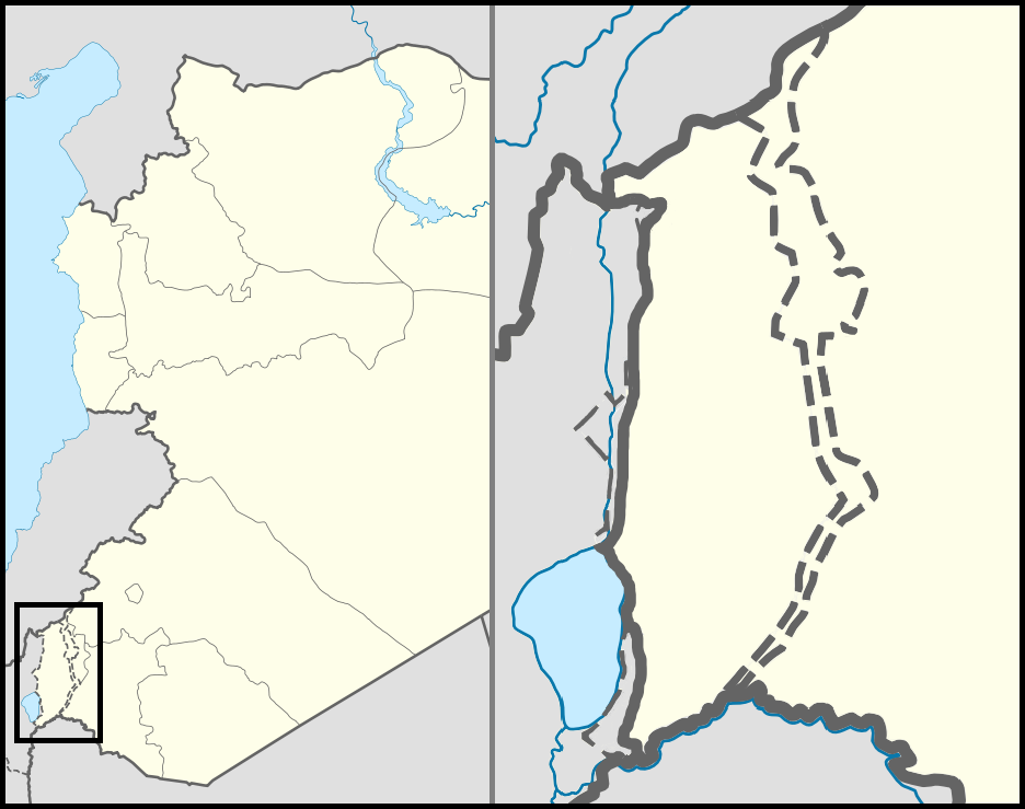 Location map of the Golan Heights.